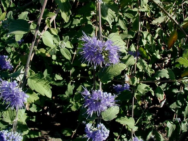 Caryopteris incana